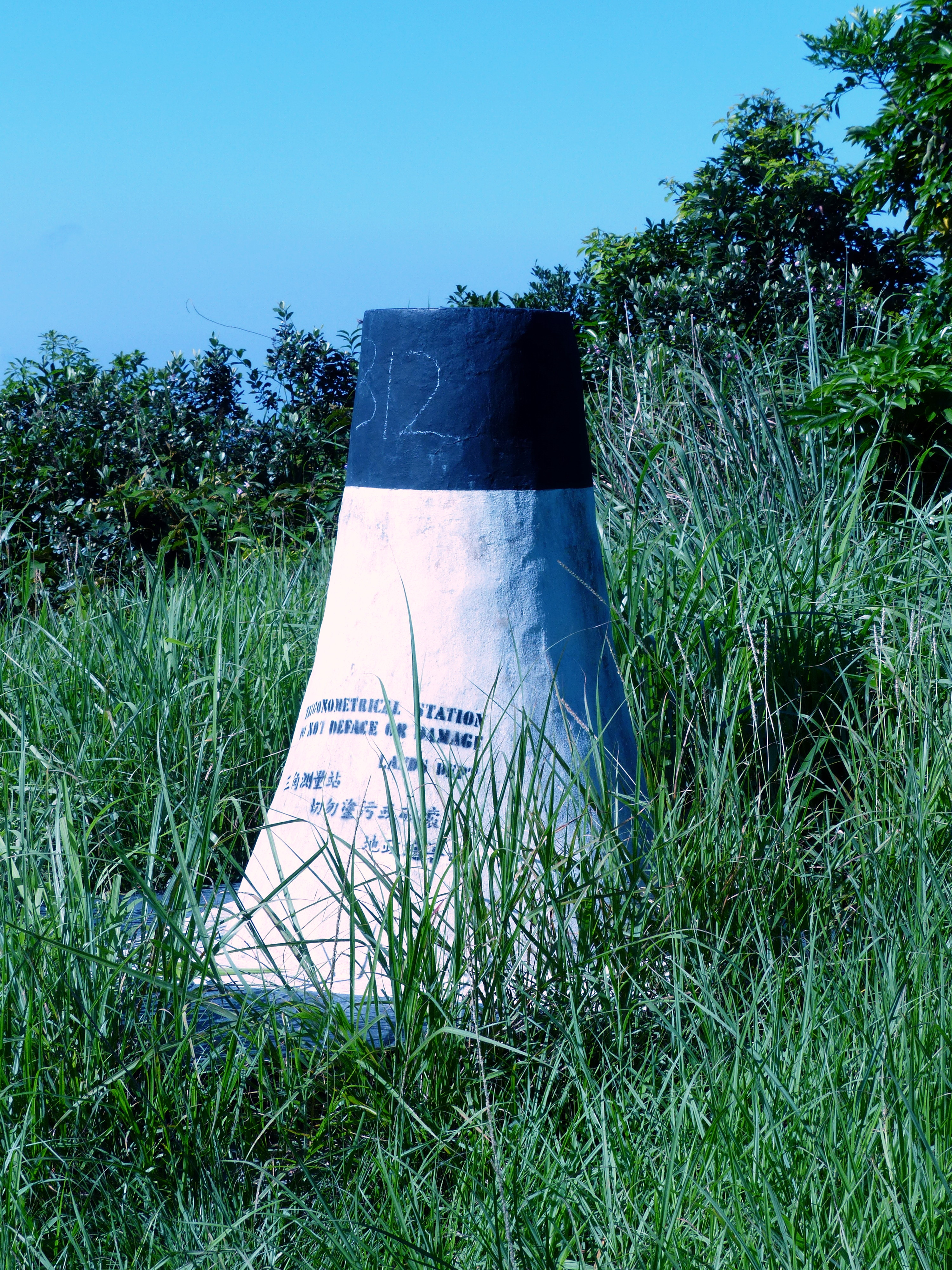 The Trigonometric Station on Pottinger Peak